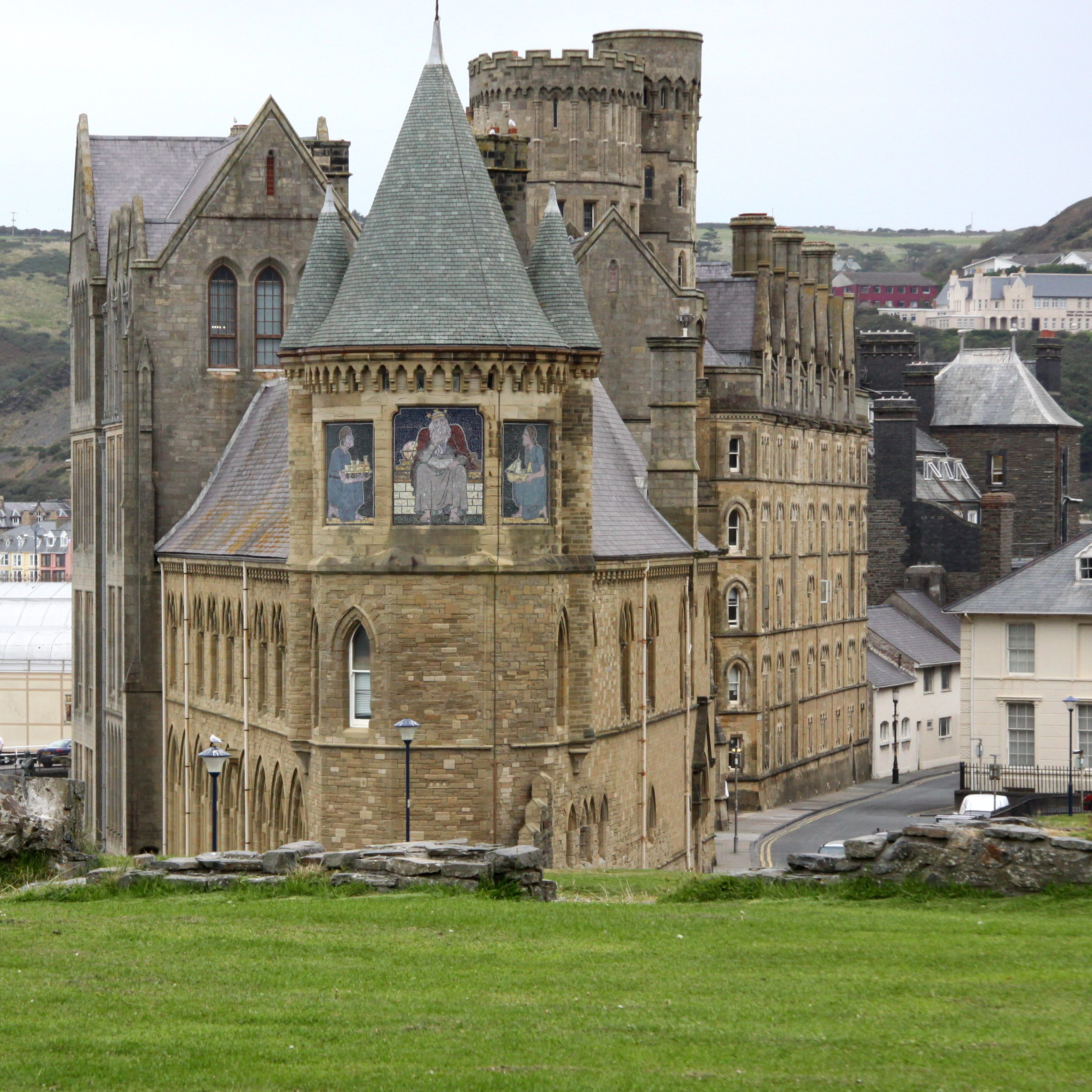 Church and Castle at Aberystwyth, Wales